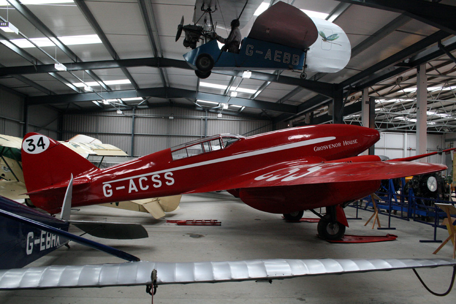 De Havilland DH88 Comet Racer (G-ACSS) Grosvenor House winner of the 1934 MacRobertson Air Race for Britain